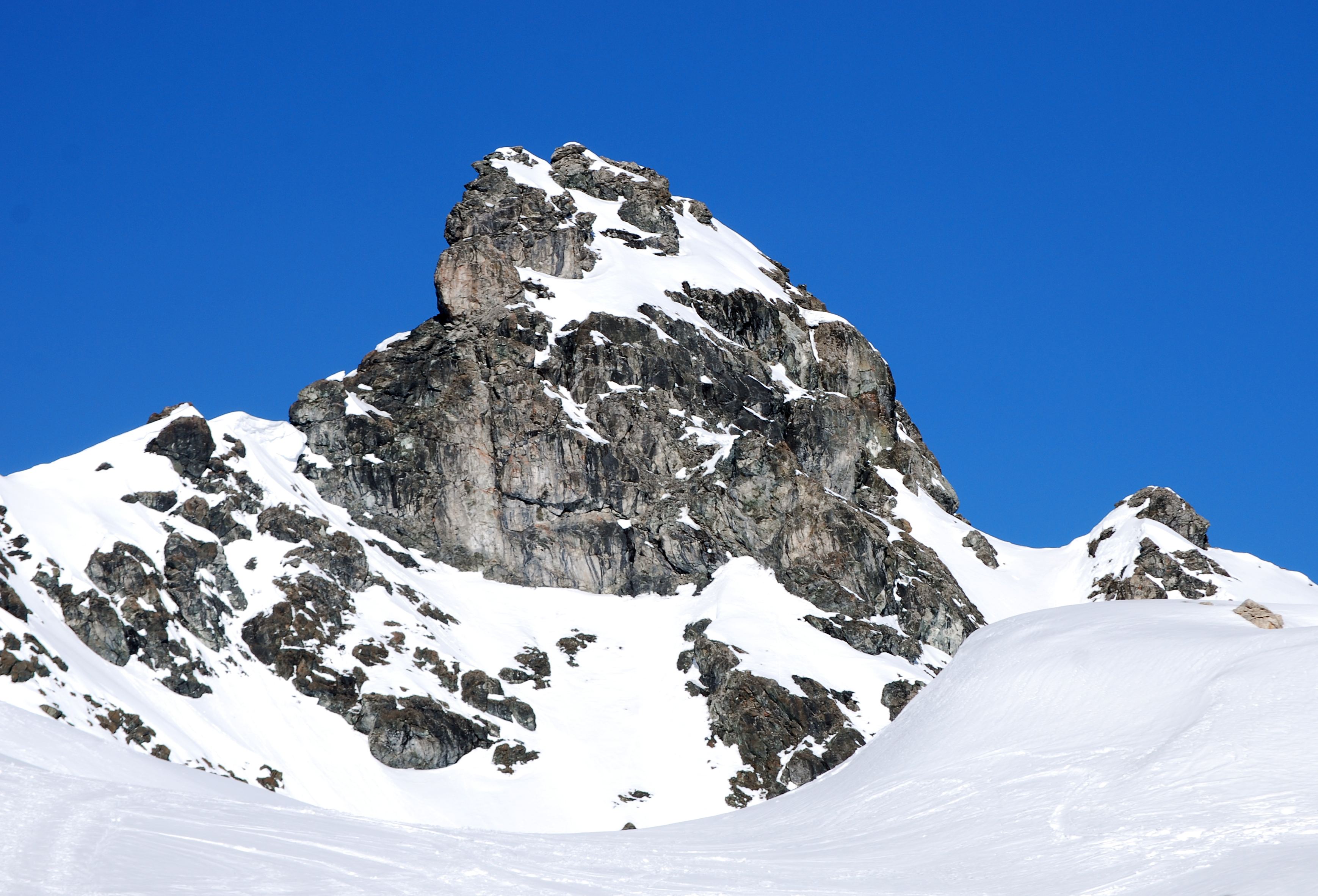 Lizumer Reckner from E